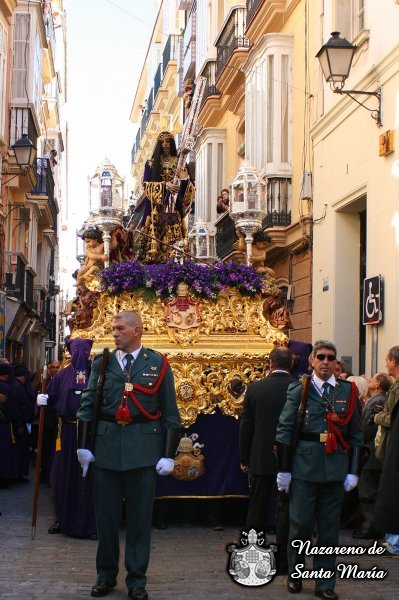 ksajfdhks